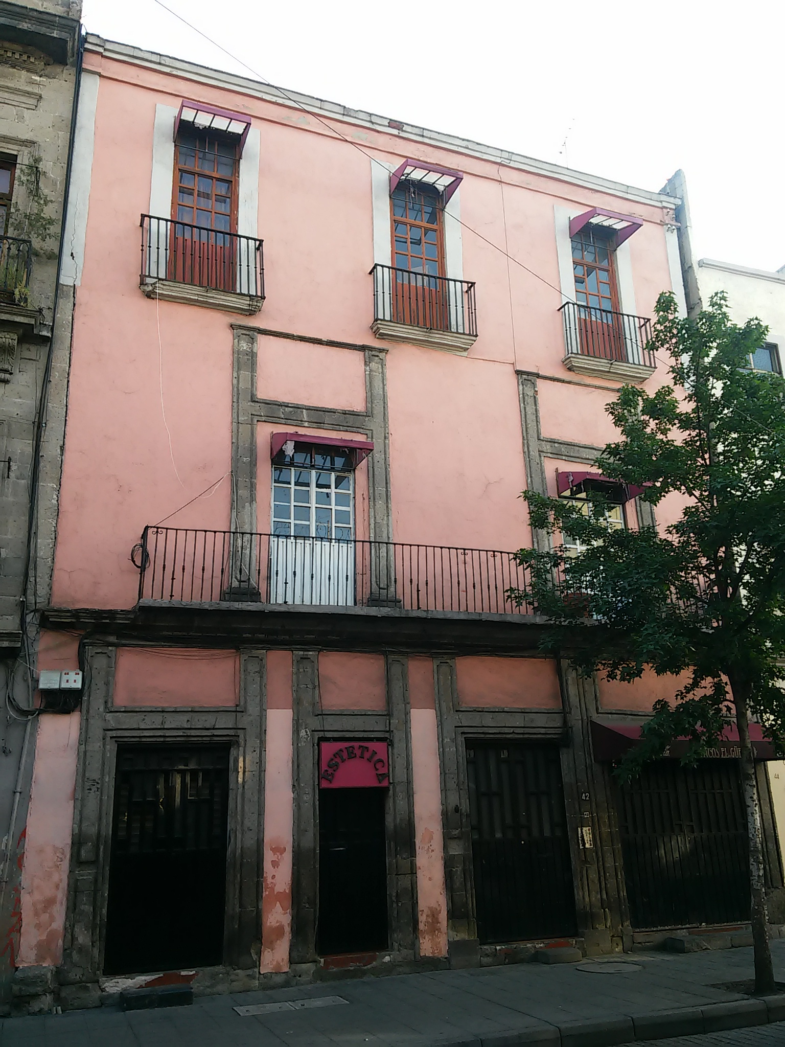 Edificio del antiguo teatro Ulises en la calle Mesones 42, centro histórico de la Ciudad de México